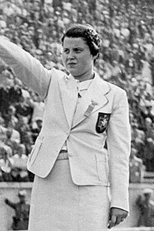 Martha Genehger of Germany on the podium during the medal ceremony for the Swimming Women's 200m Breaststroke during the Berlin Olympic at Swimming Stadium on August 11, 1936 in Berlin, Germany.